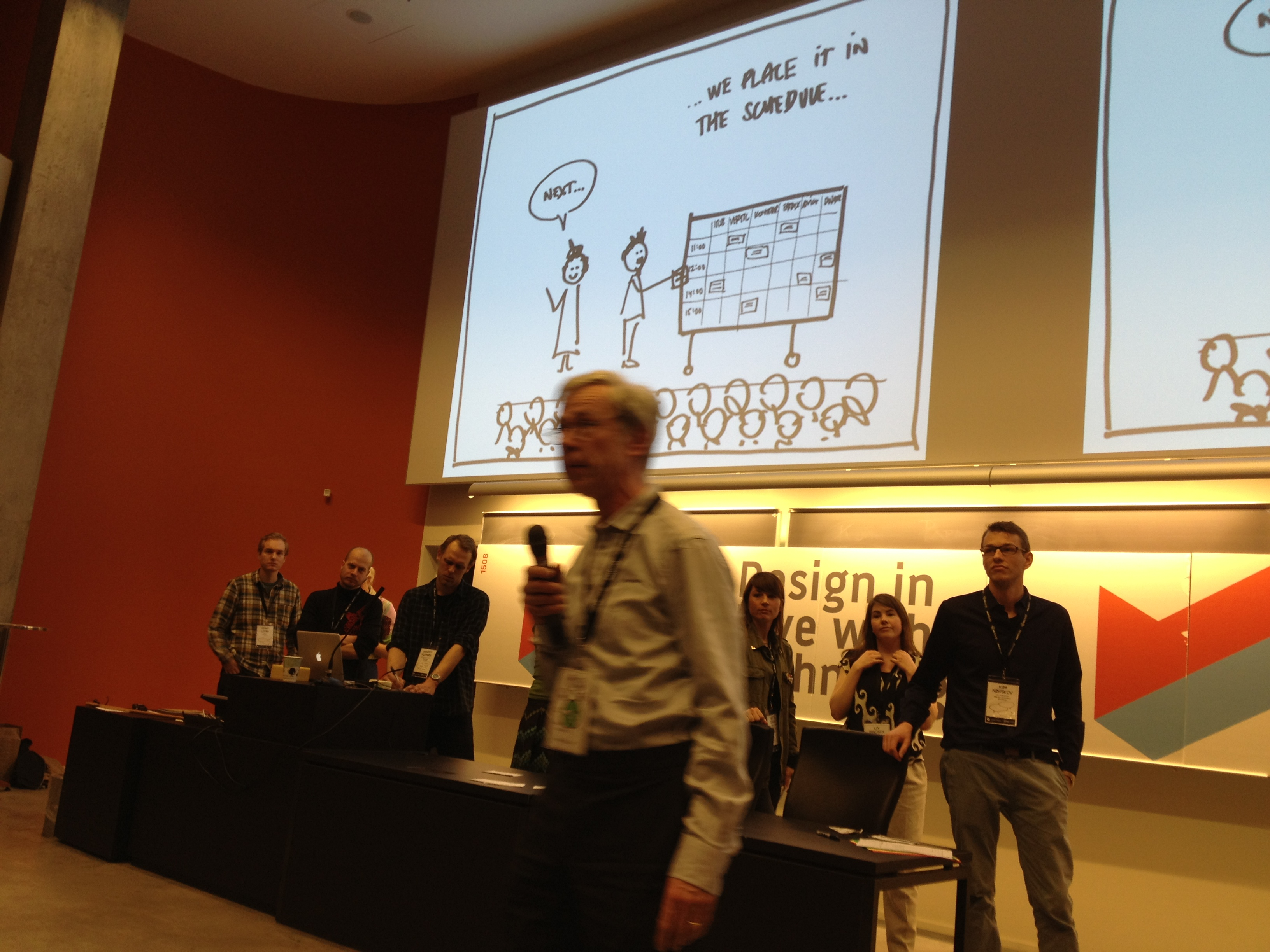 People queued up to pitch the talks they hoped to give for UX Camp CPH. Rolf Mölich is seen giving his pitch while others wait patiently in the background.